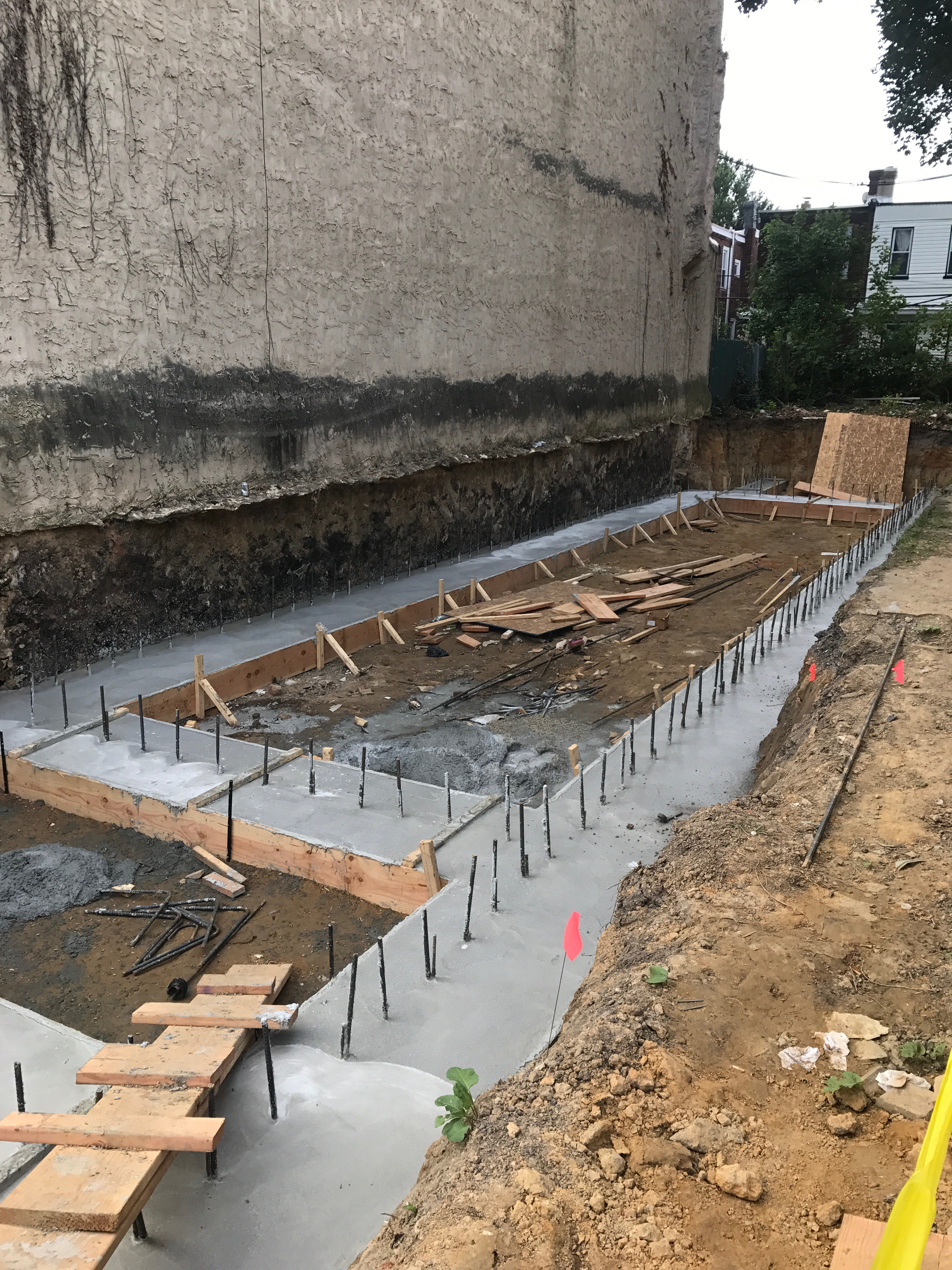 Ground-bearing slab poured into forms.